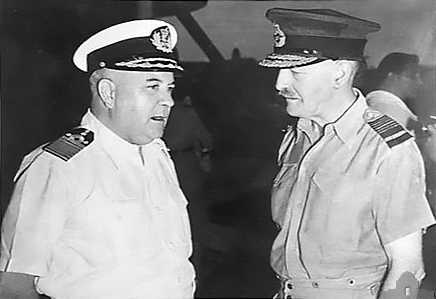 WM Caption: Far East. Admiral C.E.L. Helfrich (on the left), Commander-in-Chief of Dutch warships and, for a period, all Allied Naval Forces in the Netherlands East Indies area until early 1942 talking to Air Chief Marshal Sir Robert Brooke-Popham, RAF, Commander-in-Chief Far East from 1940-11-14 to 1941-12-27